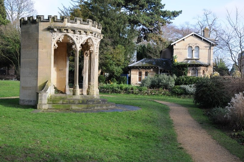 The King's Board, Gloucester